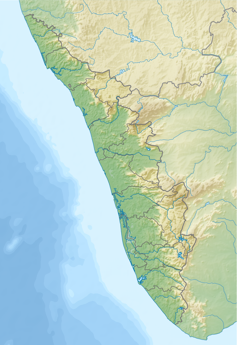 Relief map of Kerala, India.